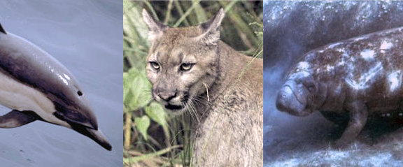 It's from English wikipedia. See more information in the discription page in en.wikipedia.